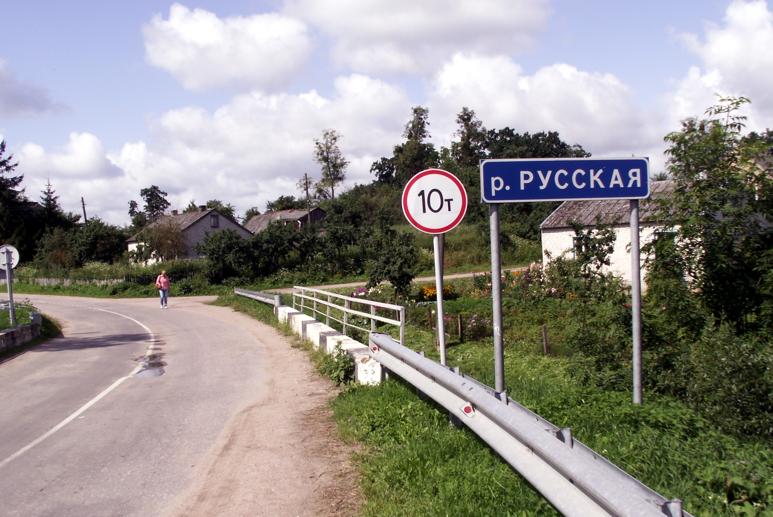 Chistye Prudy in Kaliningrad oblast